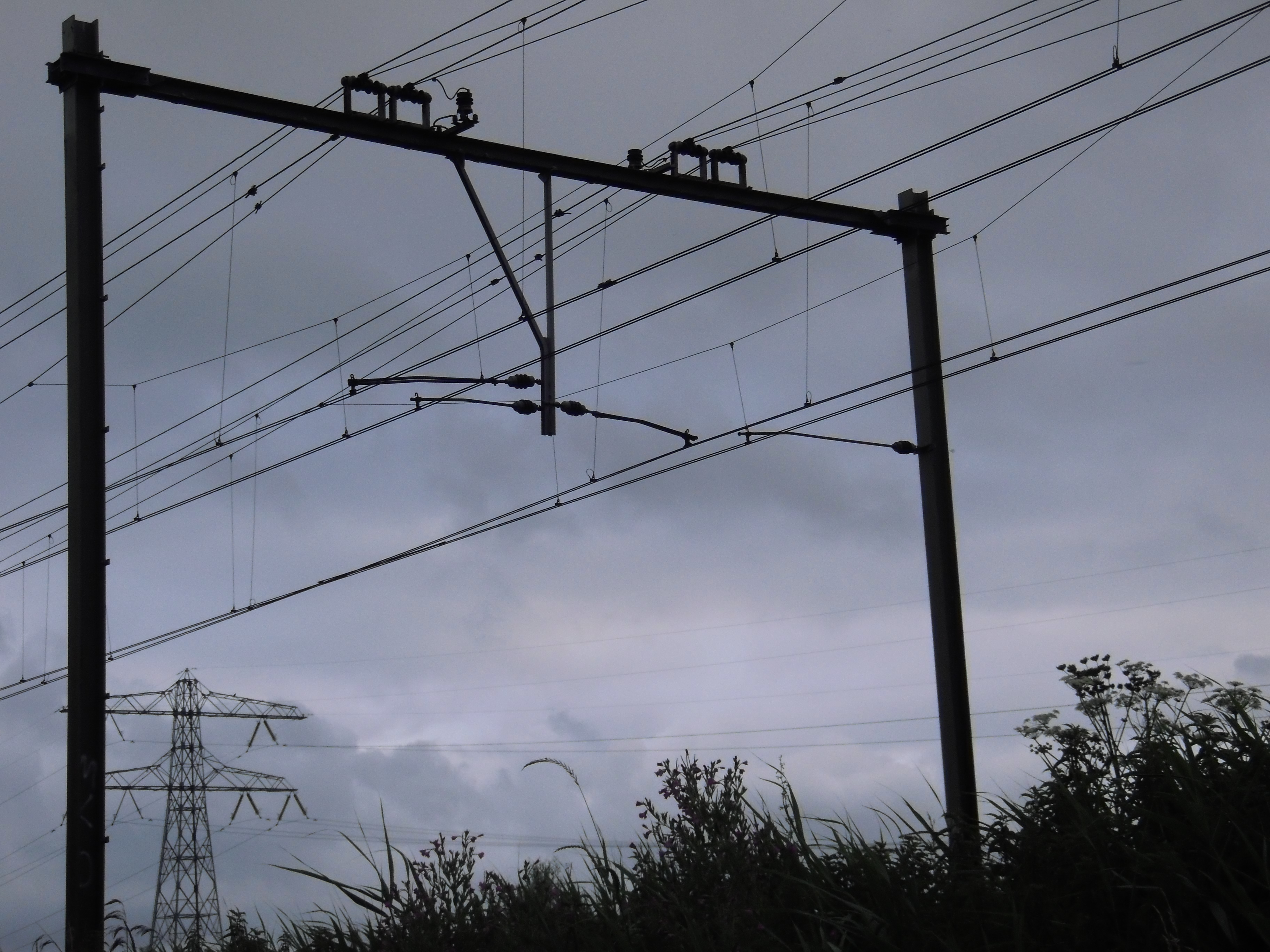 Overhead lines near Delft, The Netherlands.